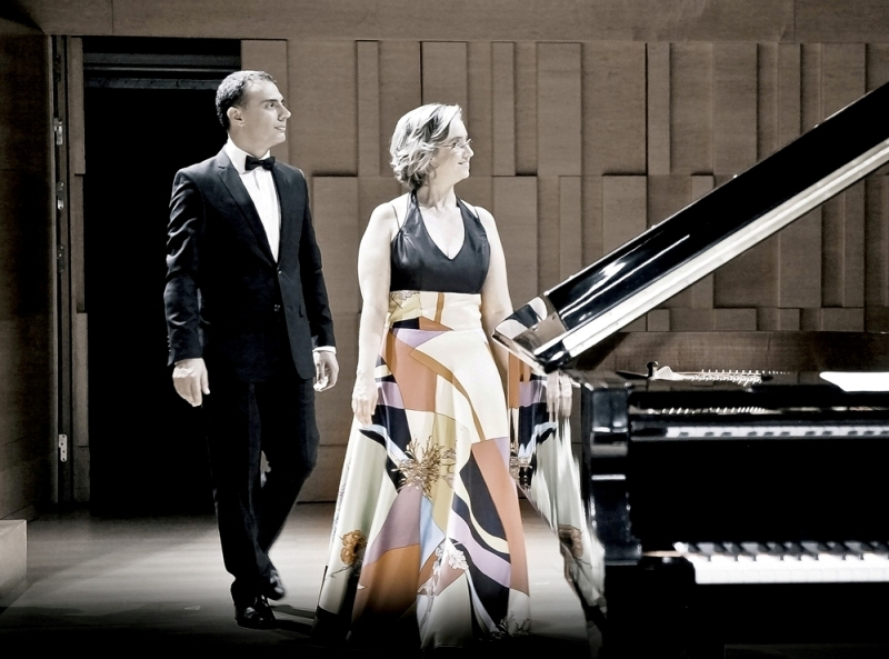 Carles&Sofia before the concert